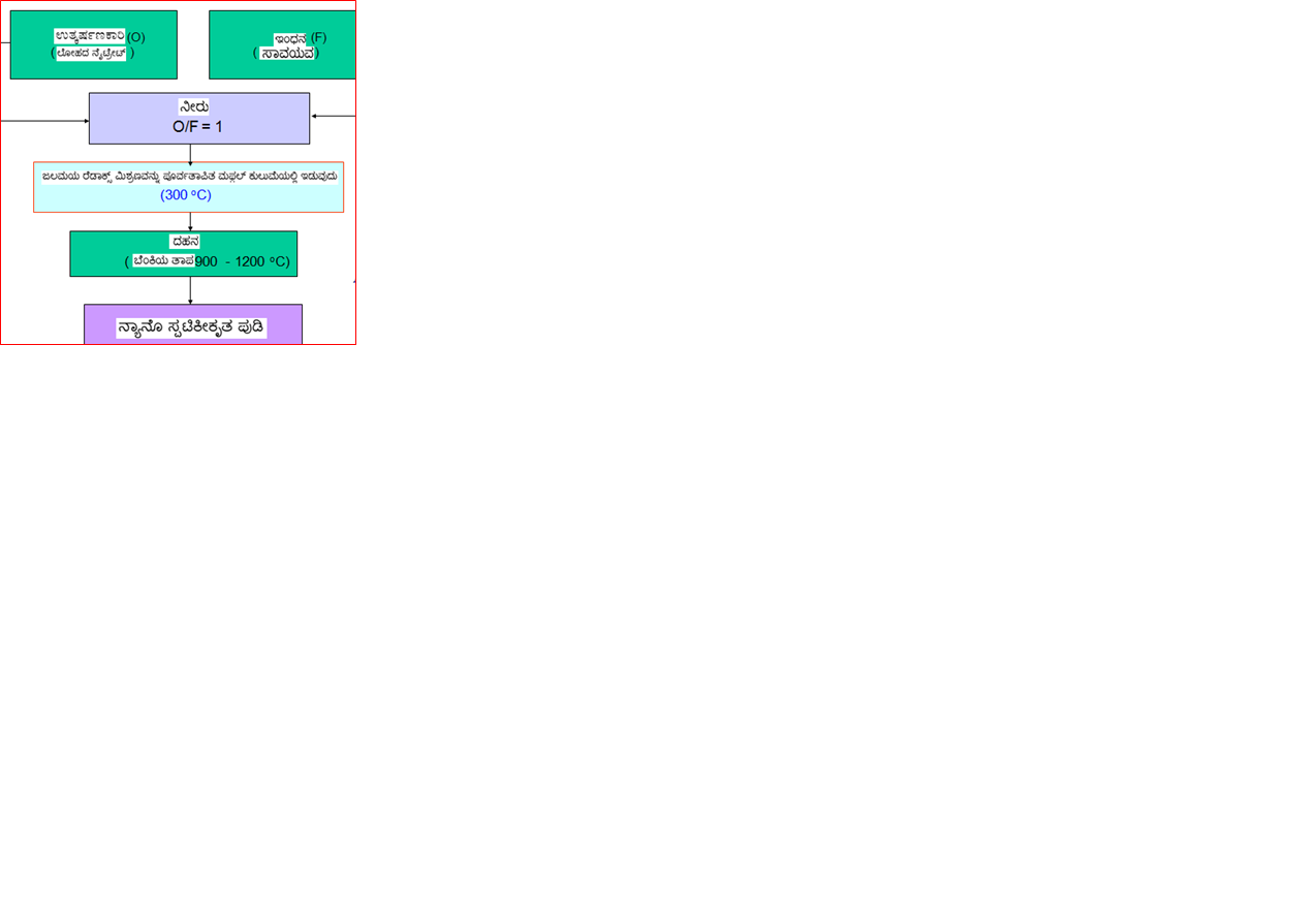 Solution combustion synthesis flowchart in Kannada